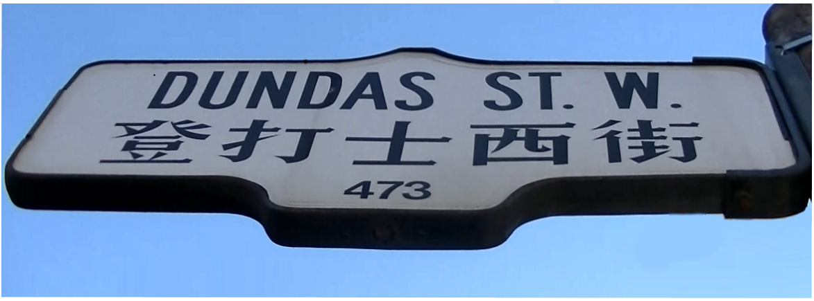 Dundas Street West sign